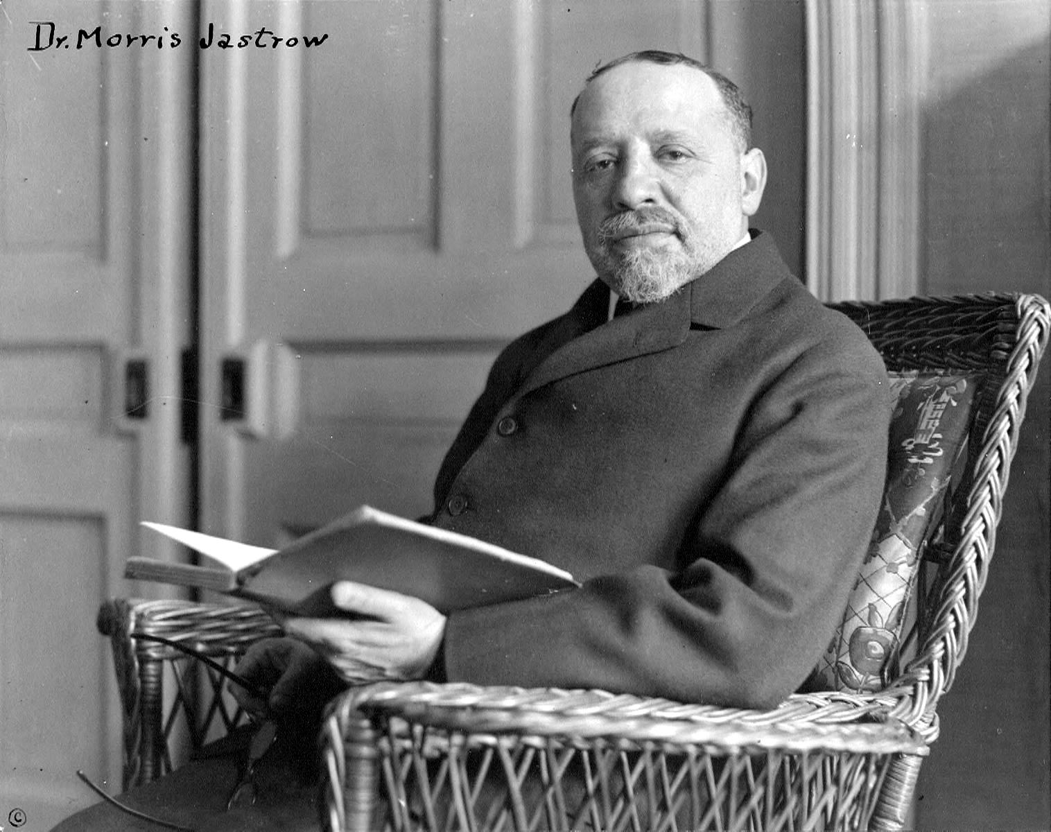 Morris Jastrow (1861-1921), LL.D. 1914, informal portrait photograph